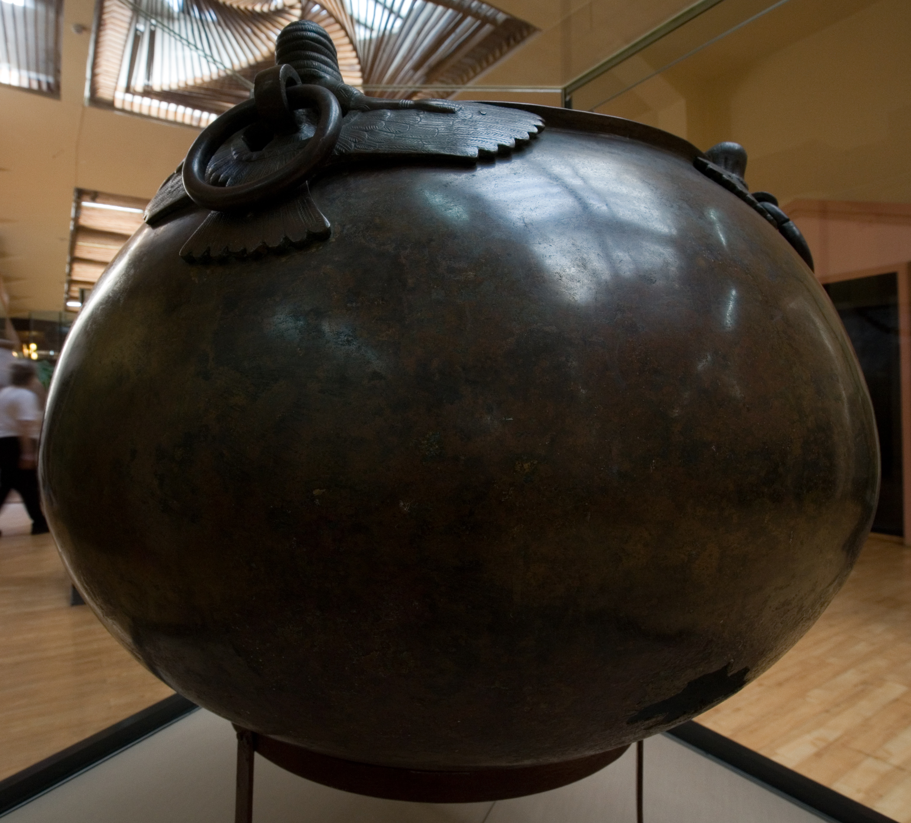 Phrygian cauldron, height 51.5 cm, from the Great Tumulus of Gordion, end of the 8th century BC. Museum of Anatolian civilizations, Ankara.